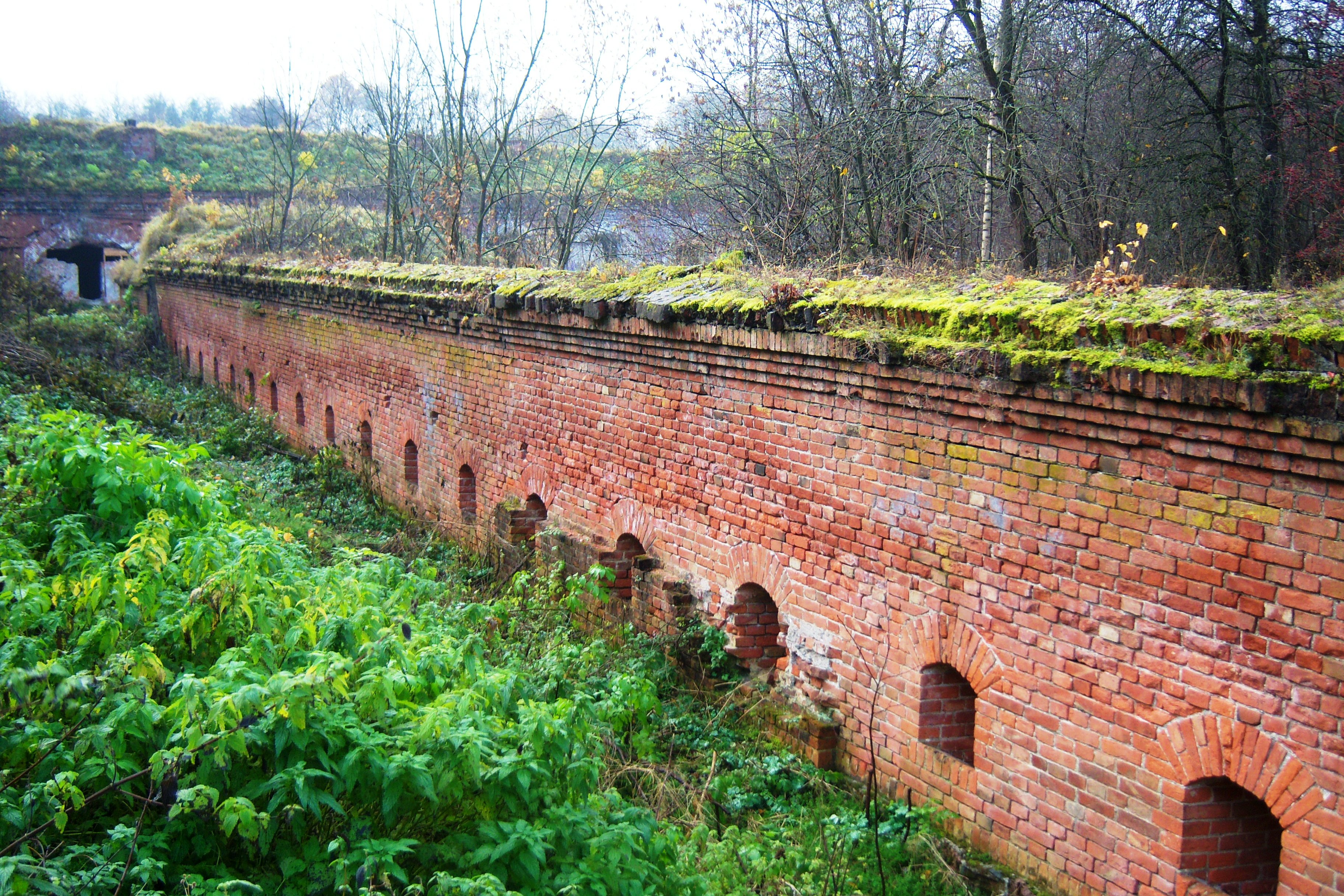 5-th Fort in Kaunas, Lithuania